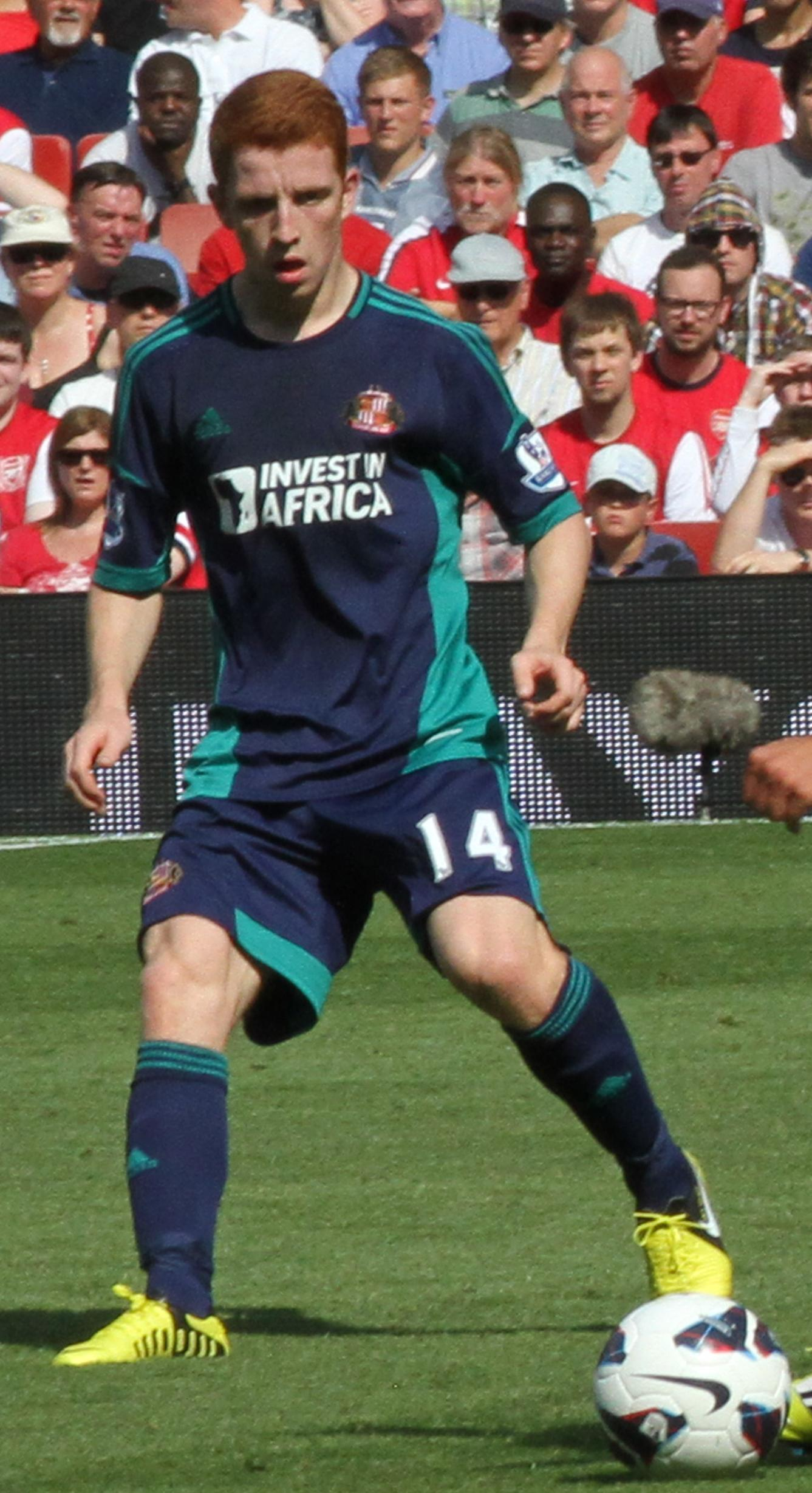 Lee Cattermole, Jack Colback & Lukas Podolski